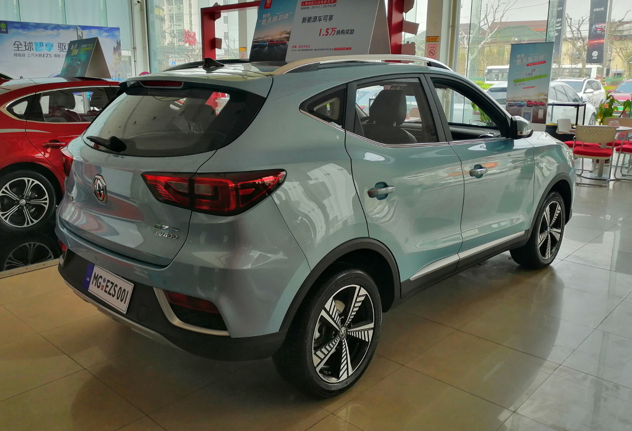 MG EZS photographed in Shanghai, China.